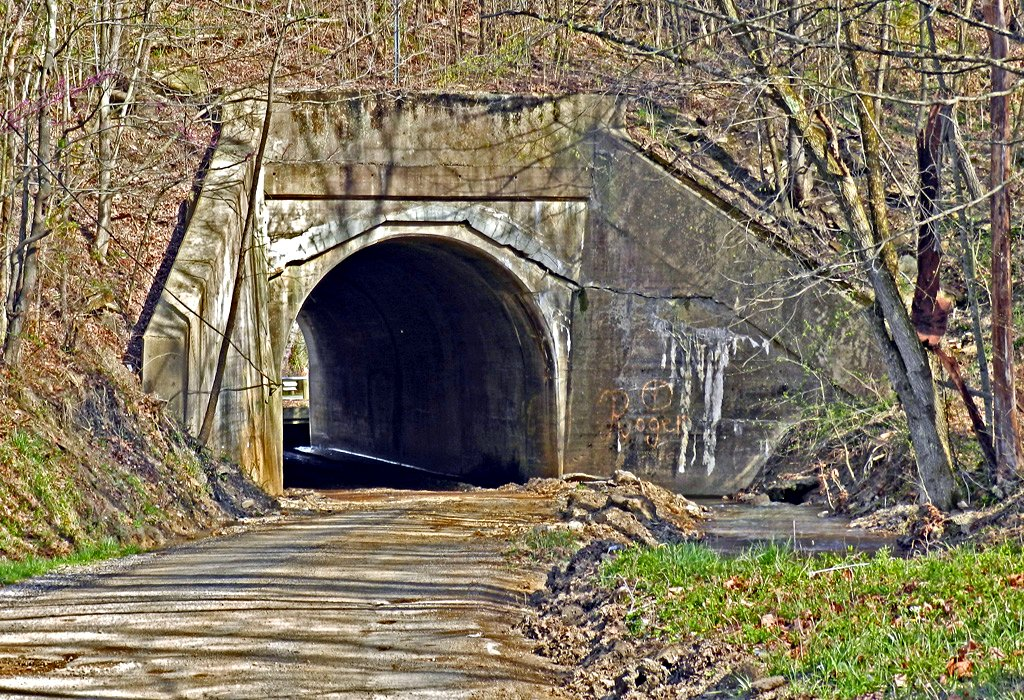 Tunnel carrying a CSX rail line over Brigner Road in central Union Township, Pike County, Ohio, United States.